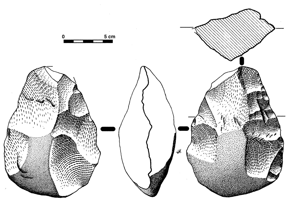 Acheulean hand axe with cortical basis that proceeds from a superficial site in the Salamanca province (Spain), in the valley of the Tormes river, tributary of Douro river.